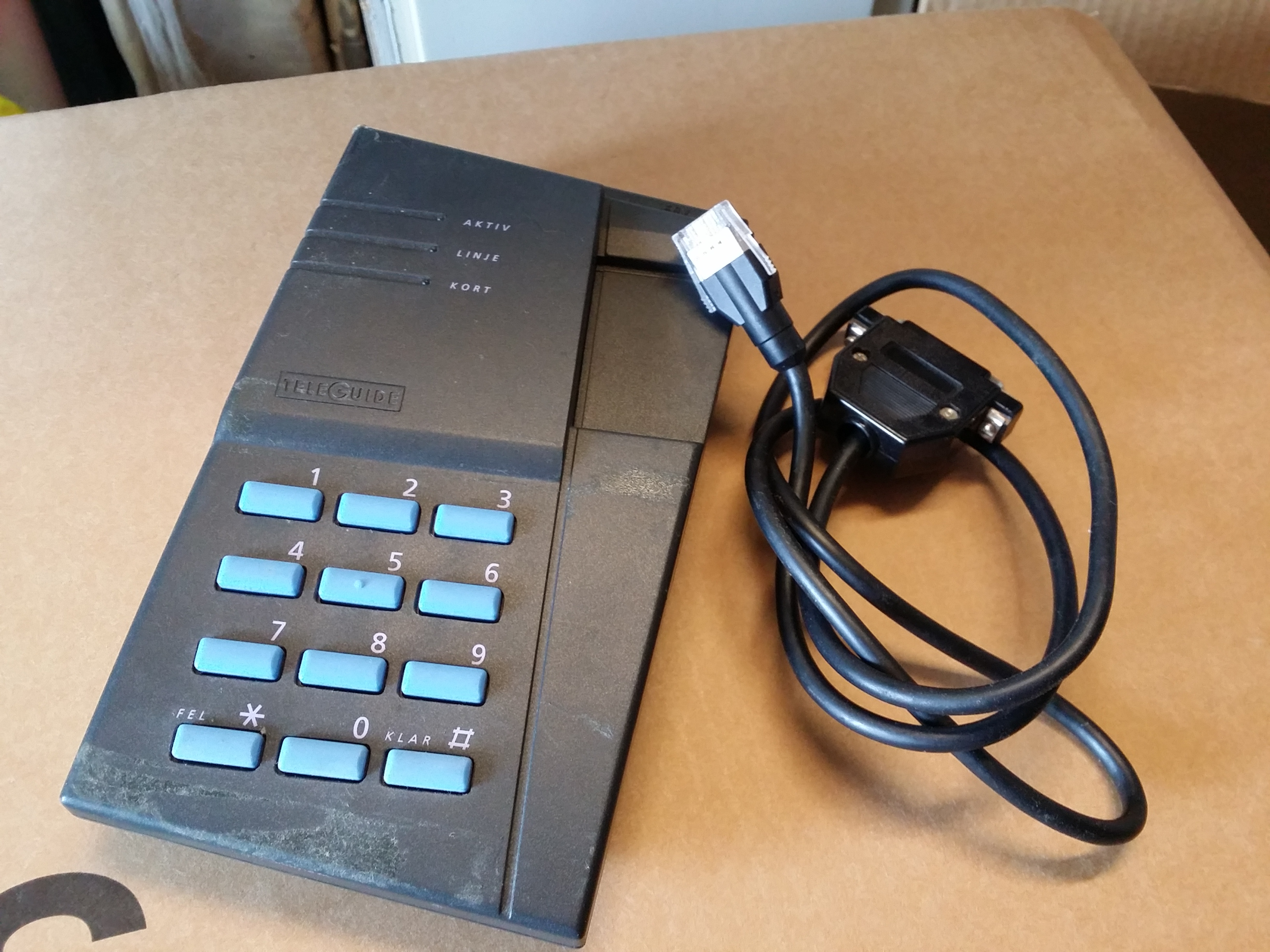 Teleguide PC version